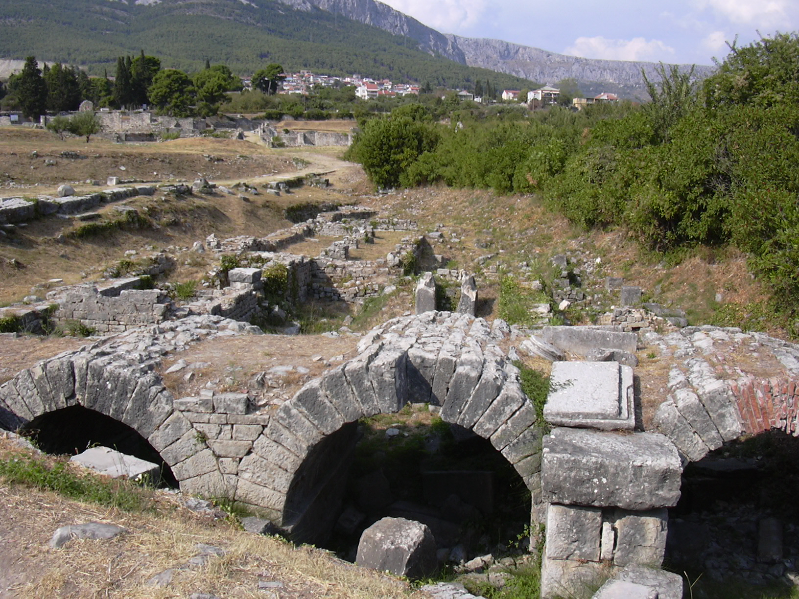 Remains of the Roman bridge with the five arches of the Roman town of Salona (Croatia)